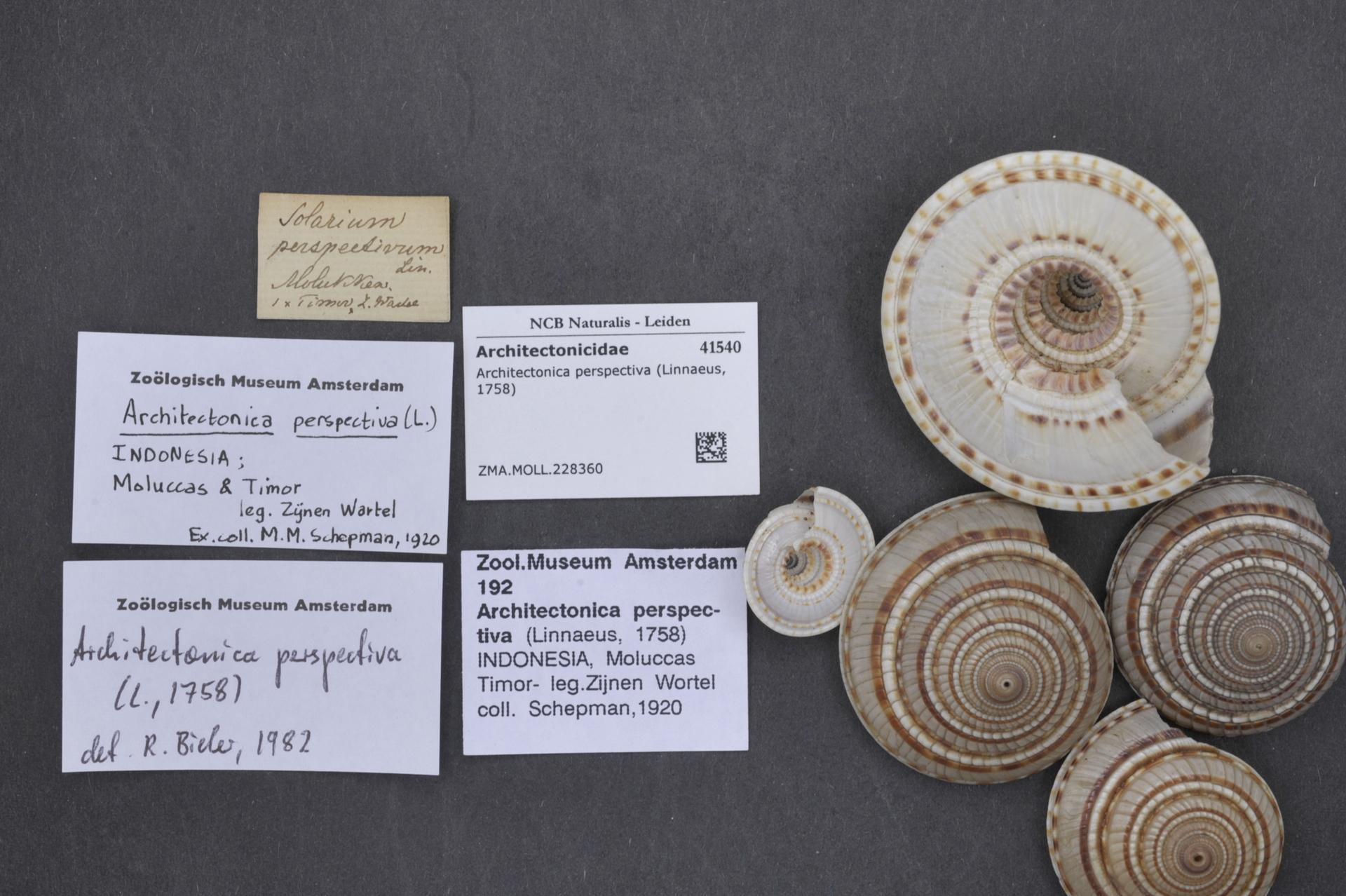 Architectonica perspectiva (Linnaeus, 1758)